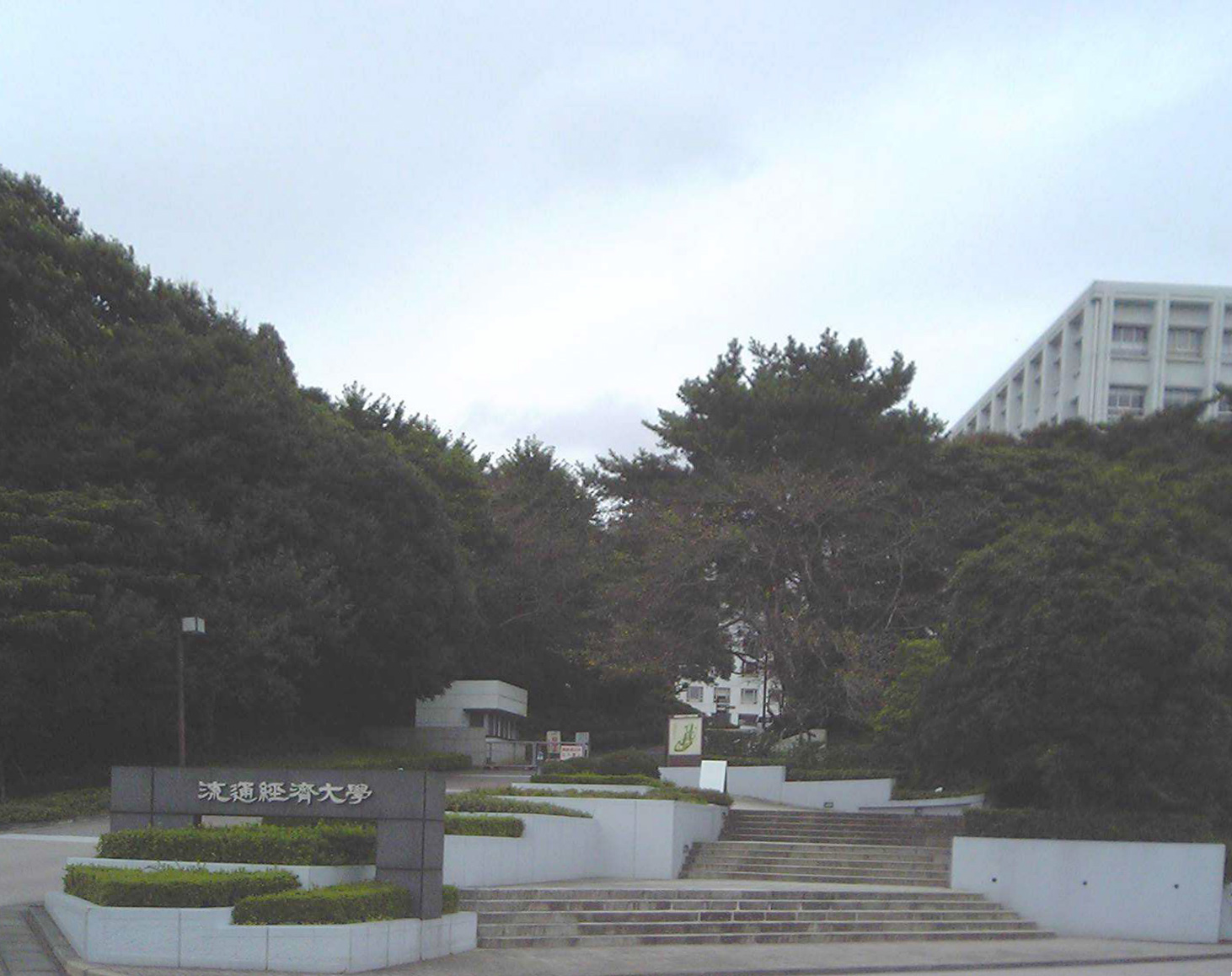 Ryutsu Keizai University, Ryugasaki, Ibaraki, Japan